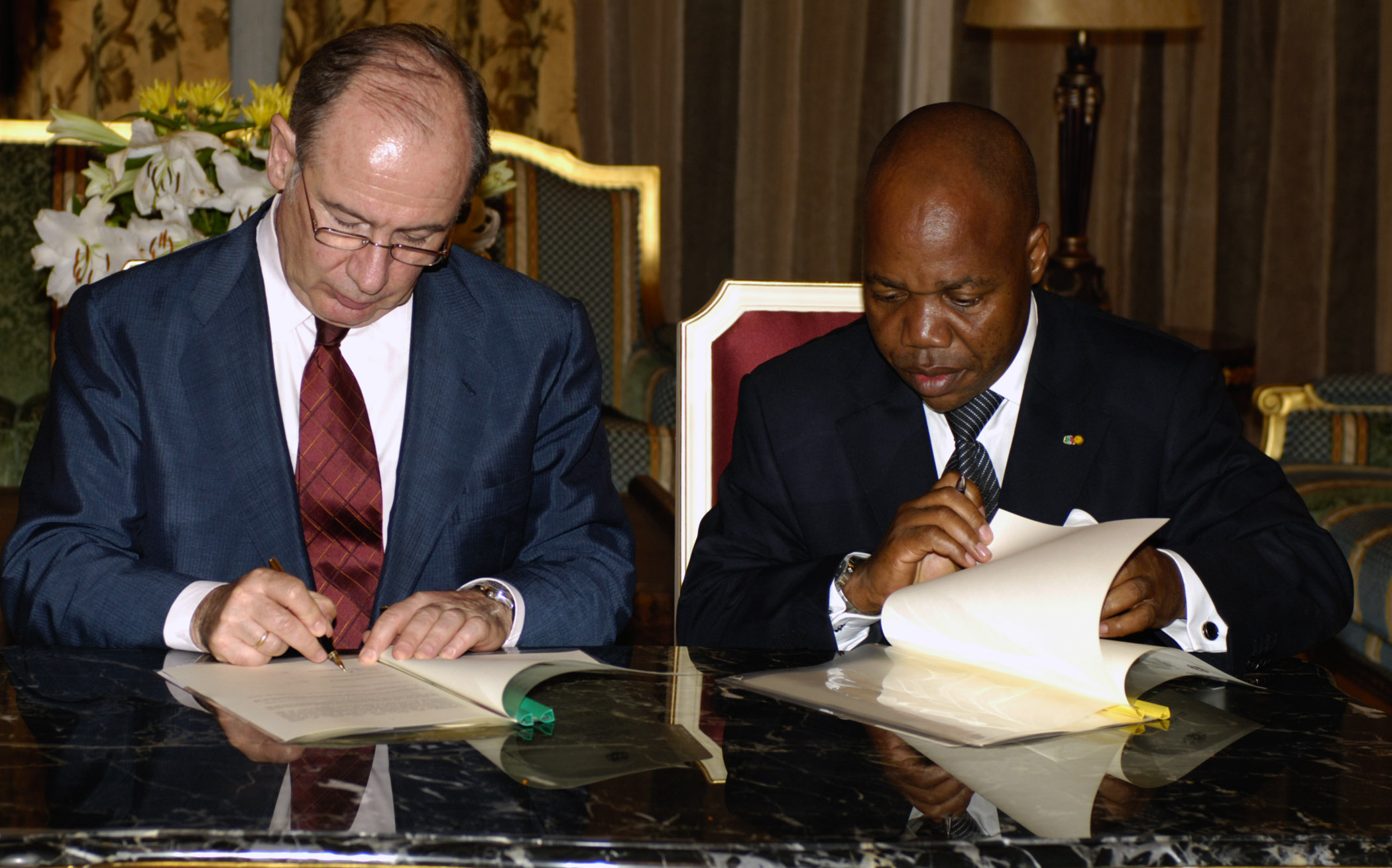 IMF Managing Director Rodrigo de Rato y Figaredo meeting with Equatorial Guinea's Minister of Finance and Budget Marcelino Owono Edu